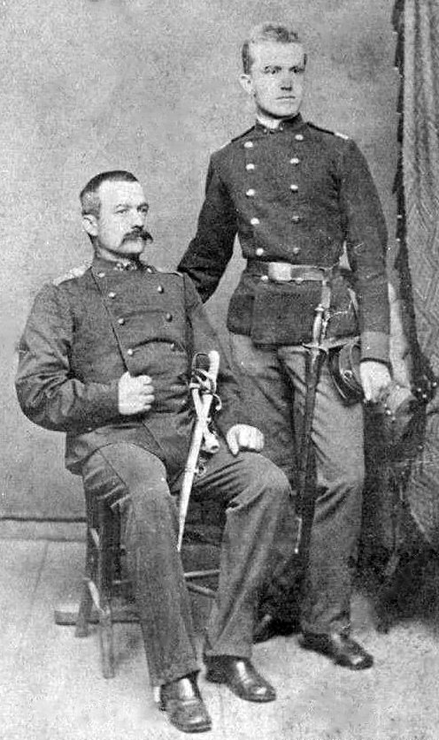 Lazar and Zhivoin Mishich in 1875